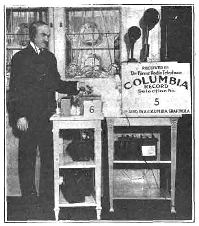 Lee DeForest broadcasting Columbia phonograph records, from page 52 of the November 4, 1916 The Music Trade Review